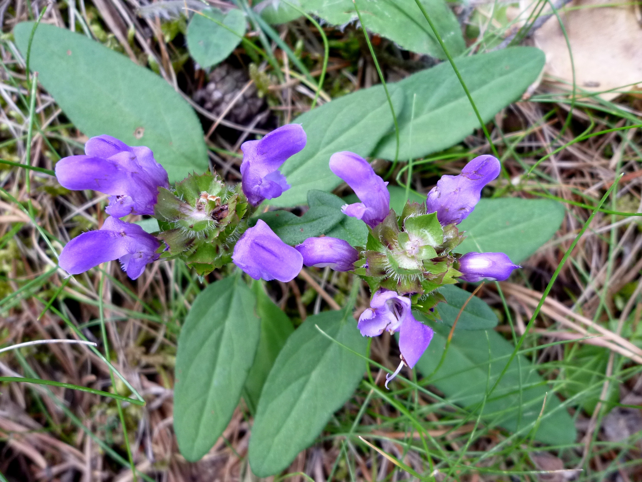 Prunella grandiflora. In la Bòfia, Tuixén (Alt Urgell - Catalunya). To 1.590 m. altitude